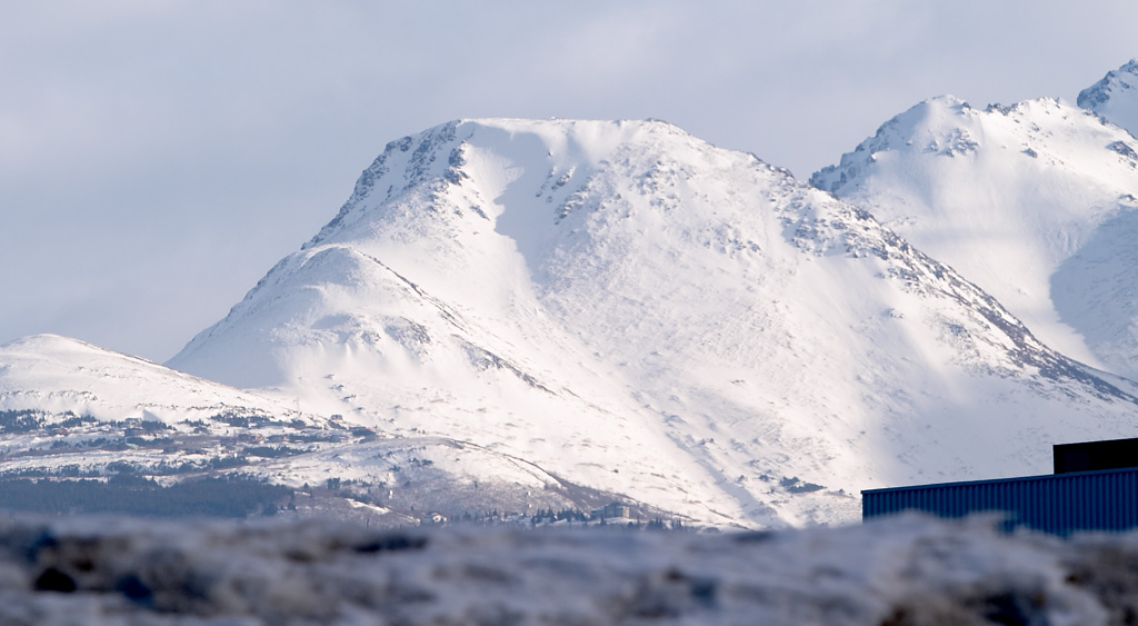 Flattop Mountain taken from south Anchorage, around 76th Avenue and the New Seward Highway.